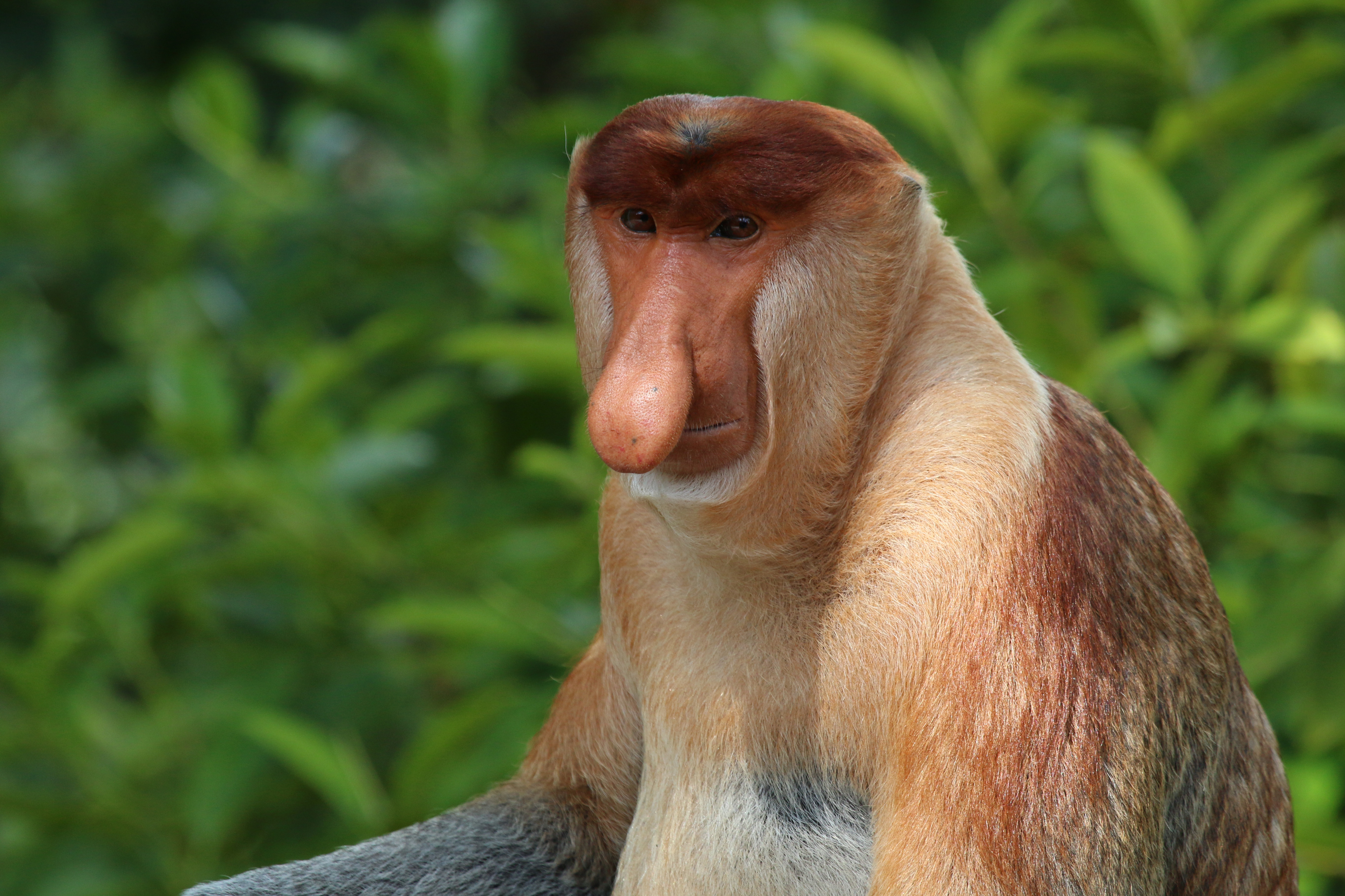 Proboscis monkey (Nasalis larvatus) male Labuk Bay, Sabah, Borneo, Malaysia